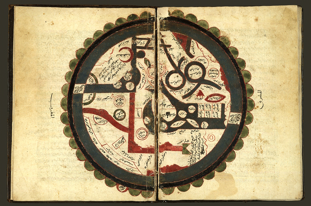 Ibn al-Wardi's atlas of the world (1349)